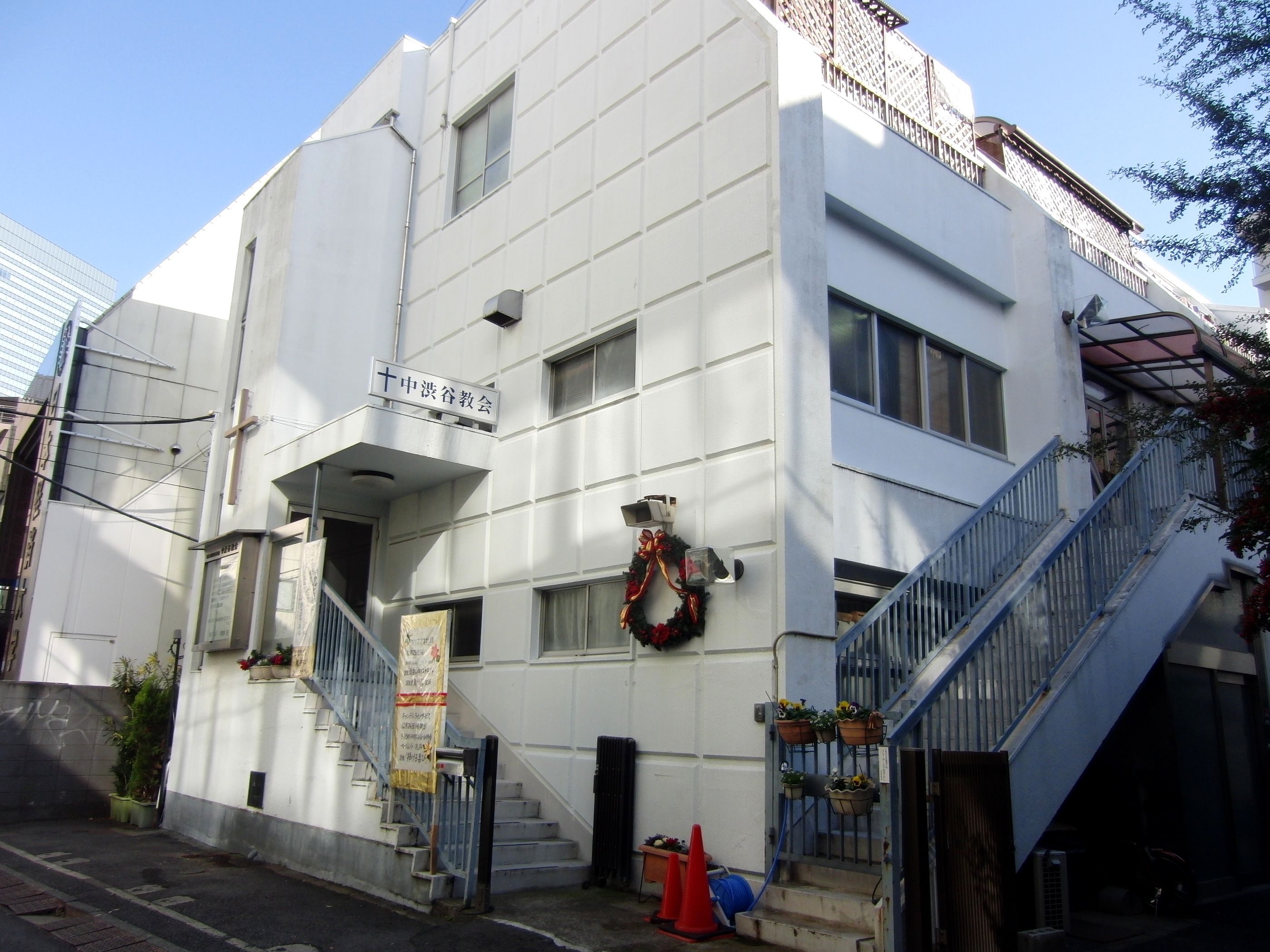 Nakashibuya Church. Sakuragaoka-cho, Shibuya, Tokyo, Japan.